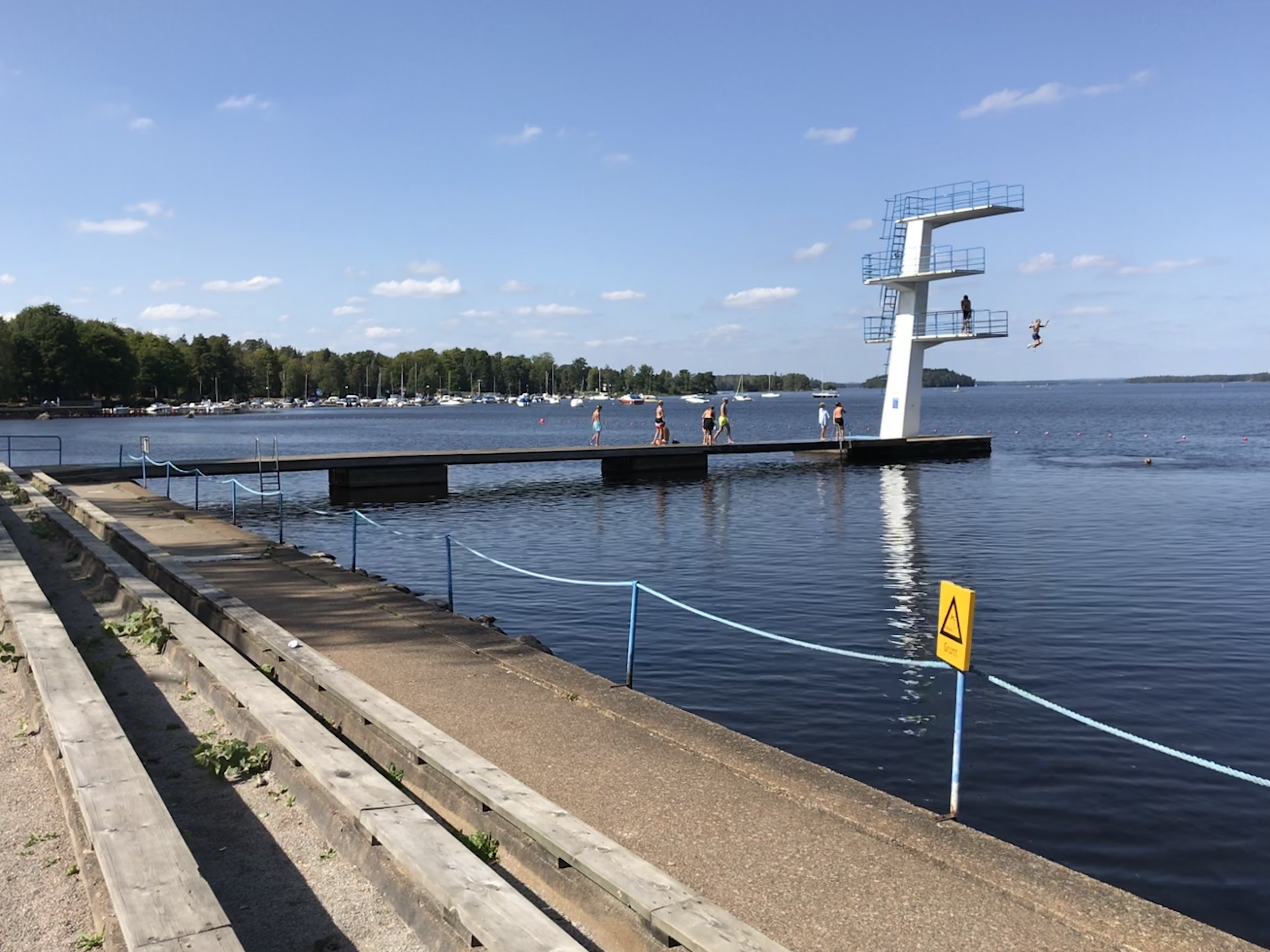 Diving plattform at the Evedal beach by the lake Helgasjön in Växjö